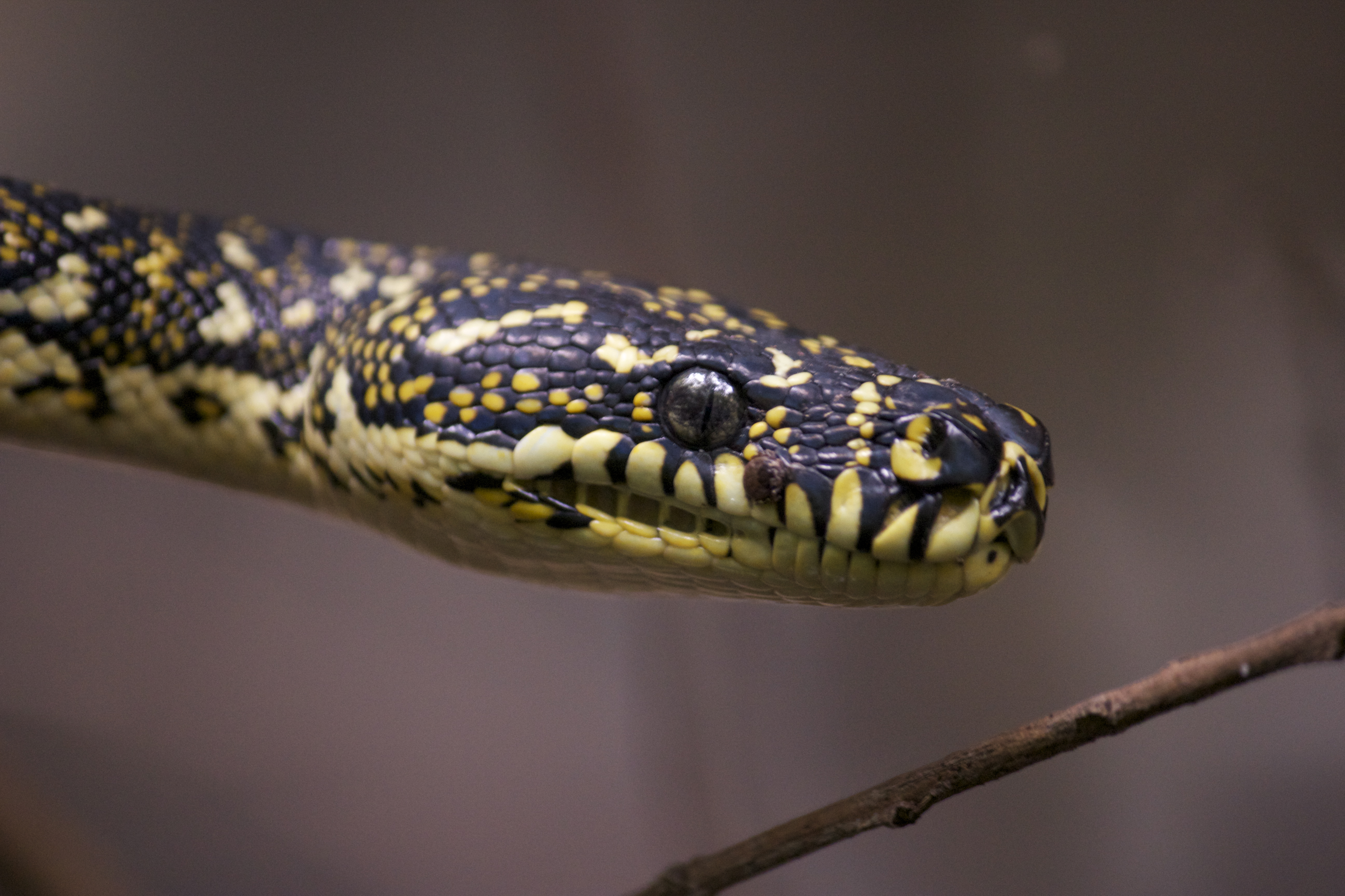 Morelia spilota, otherwise known as the Diamond Python.